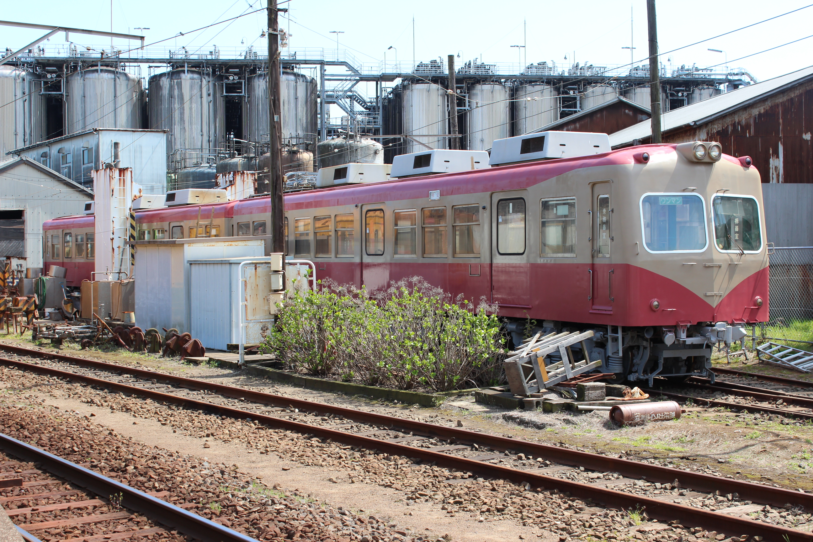 Choshi Electric Railway 2000 series EMU set 2002 undergoing repairs and repainting at Nakanocho Depot